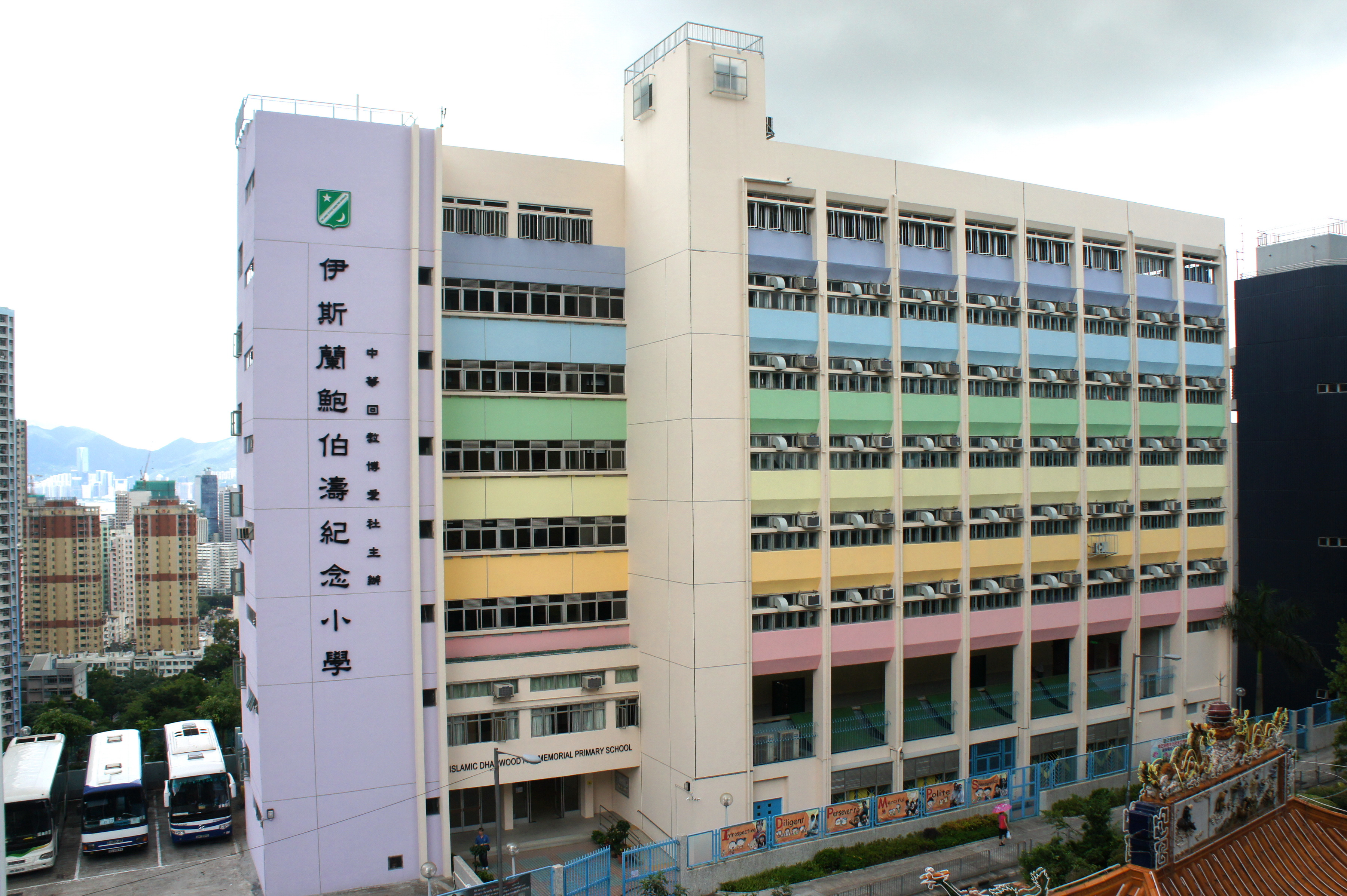 Islamic Dharwood Pau Memorial Primary School, Tsz Lok Estate Phase 1, Tsz Wan Shan, Kowloon, Hong Kong.